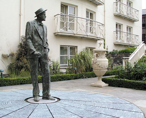 The source of this image is the artist himself, Rowan Gillespie, who is the sole owner and creator of this photograph and agrees to publish it under the Creative Commons Attribution 3.0 License. which states that the owner agrees to share the work under the following conditions: You must attribute the photograph to him, in the manner specified by the licensor (but not in any way that suggests that he endorses you or your use of his image). Permission granted 2nd January 2008.